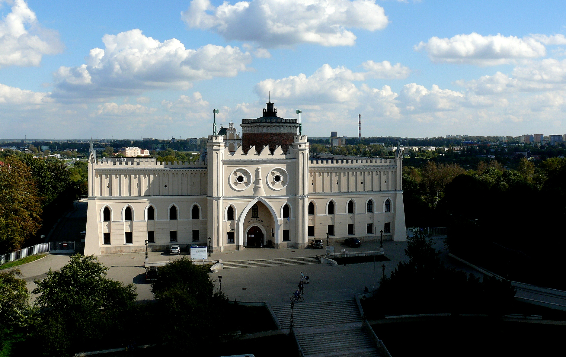 Lublin castle, view from west.